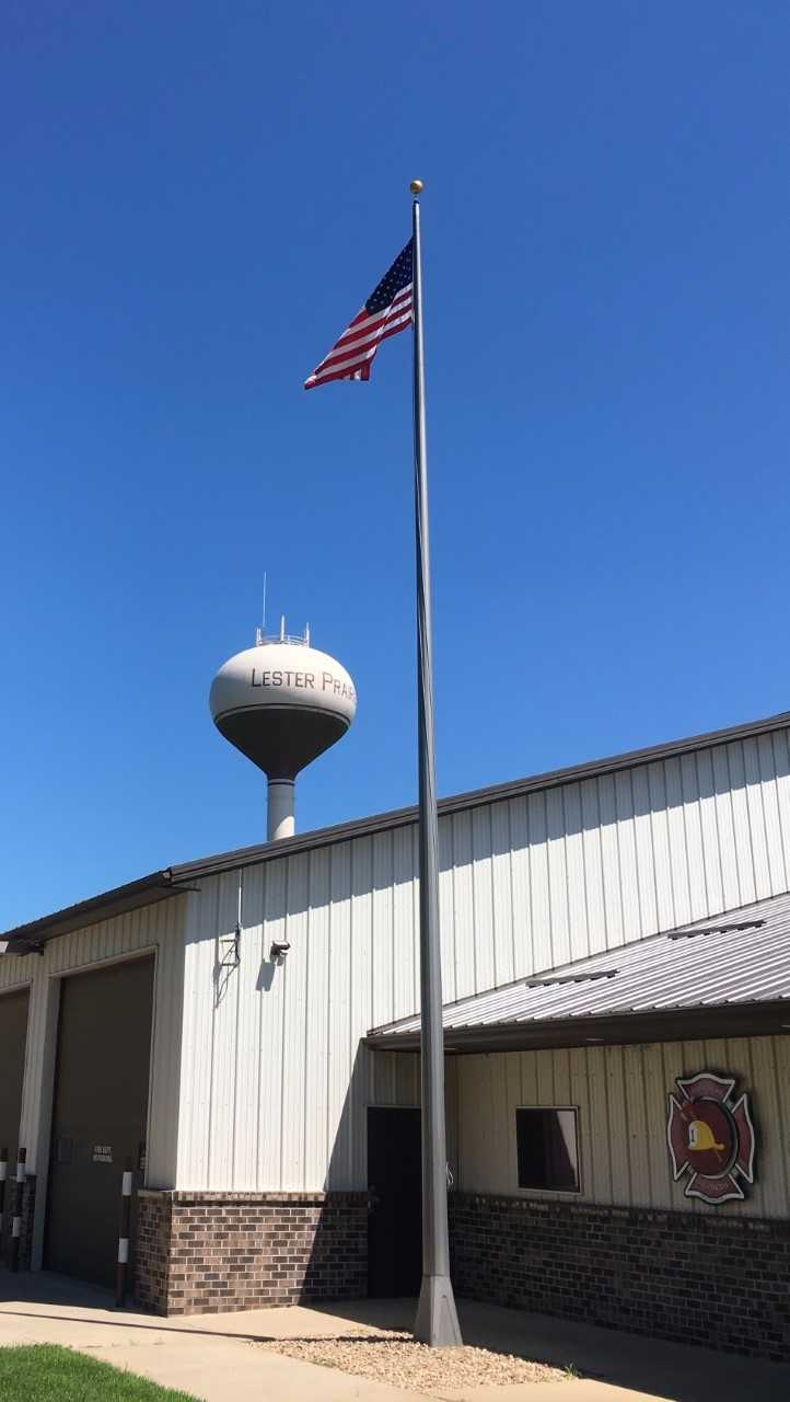 Lester Prairie, Minnesota fire department and water tower